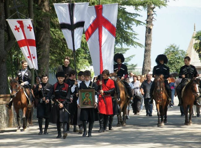 Cotne dadianis darbazi